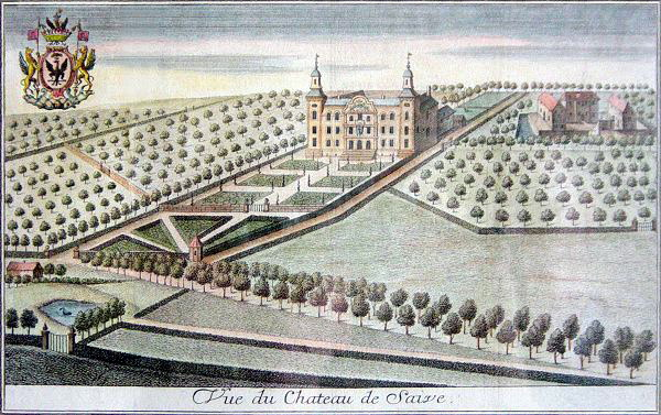 Chateau de Méan, at Saive, Belgium, home of the De Méan family in the 17th/18th c. Drawing by Remacle Le Loup (around 1700)